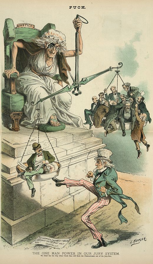 Title: The one man power in our jury system Abstract: Illustration shows an old hag labeled "Tradition" sitting in a chair labeled "Justice" and holding a large balance scale labeled "LAW" with ten men on the right and one smug man labeled "Stubbornness, Ignorance, [and] Prejudice" sitting in the tray on the left next to a sack labeled "Venality"; he outweighs the other ten. Uncle Sam is attempting to kick the man out of the balance; at his feet is a paper that states "'Remember, you want twelve jurymen and we want only one' (Monopolist)" Physical description: 1 print : chromolithograph. Notes: J. Keppler.; Caption: We shall see the day when Uncle Sam will kick the obstructionist out of the jury-box.; Illus. from Puck, v. 18, no. 466, (1886 February 10), centerfold.; Copyright 1886 by Keppler & Schwarzmann.; Title from item.